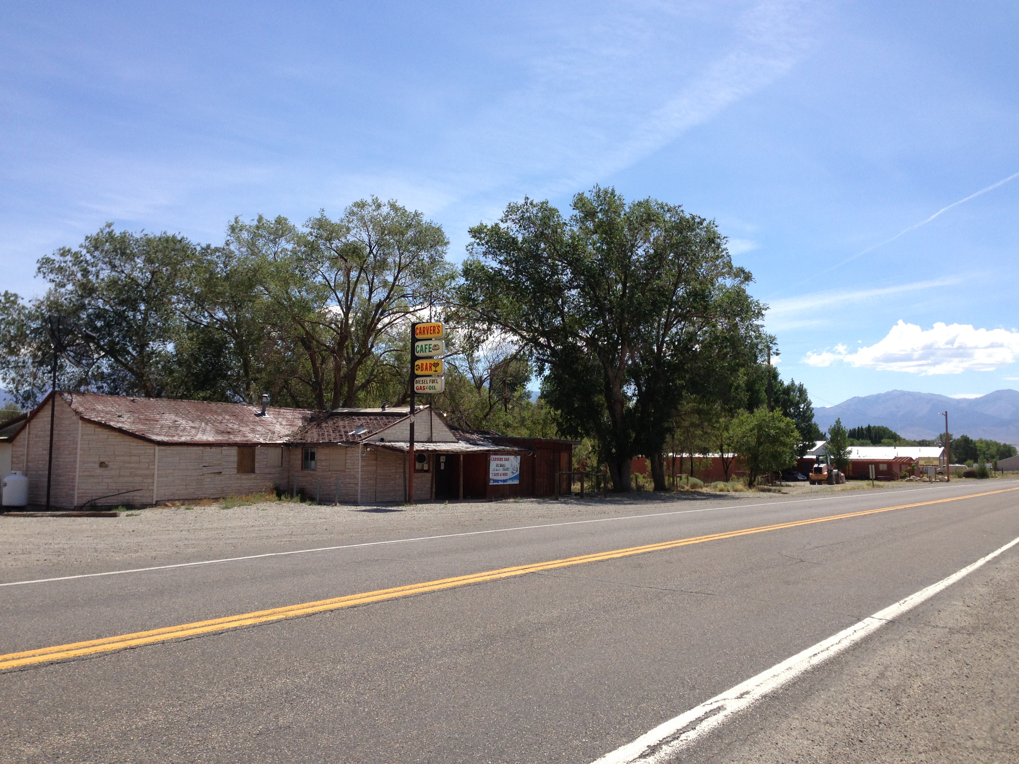 Businesses along Nevada State Route 376 (Tonopah-Austin Road) about 53.8 miles north of U.S. Route 6 in Carvers, Nevada